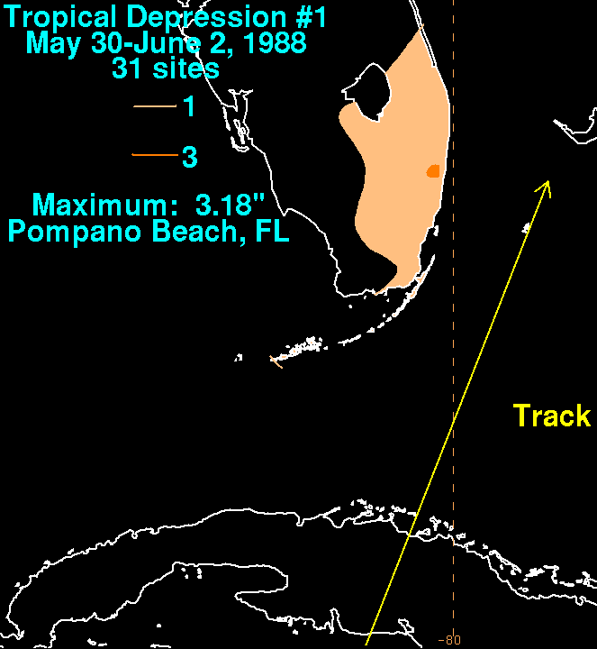 Storm total rainfall map of Tropical Depression One during May and June 1988.